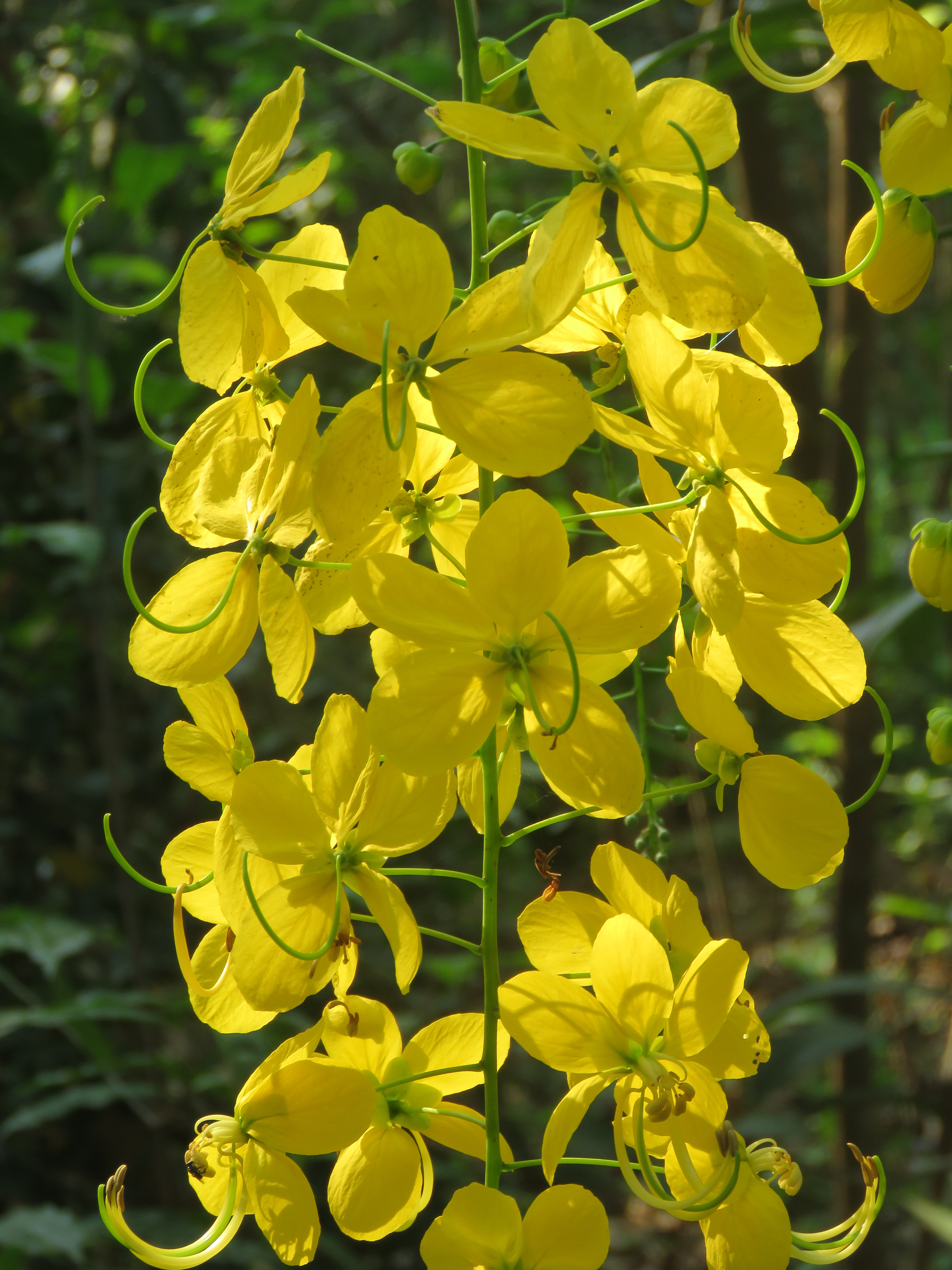 Photos from Peravoor 2018